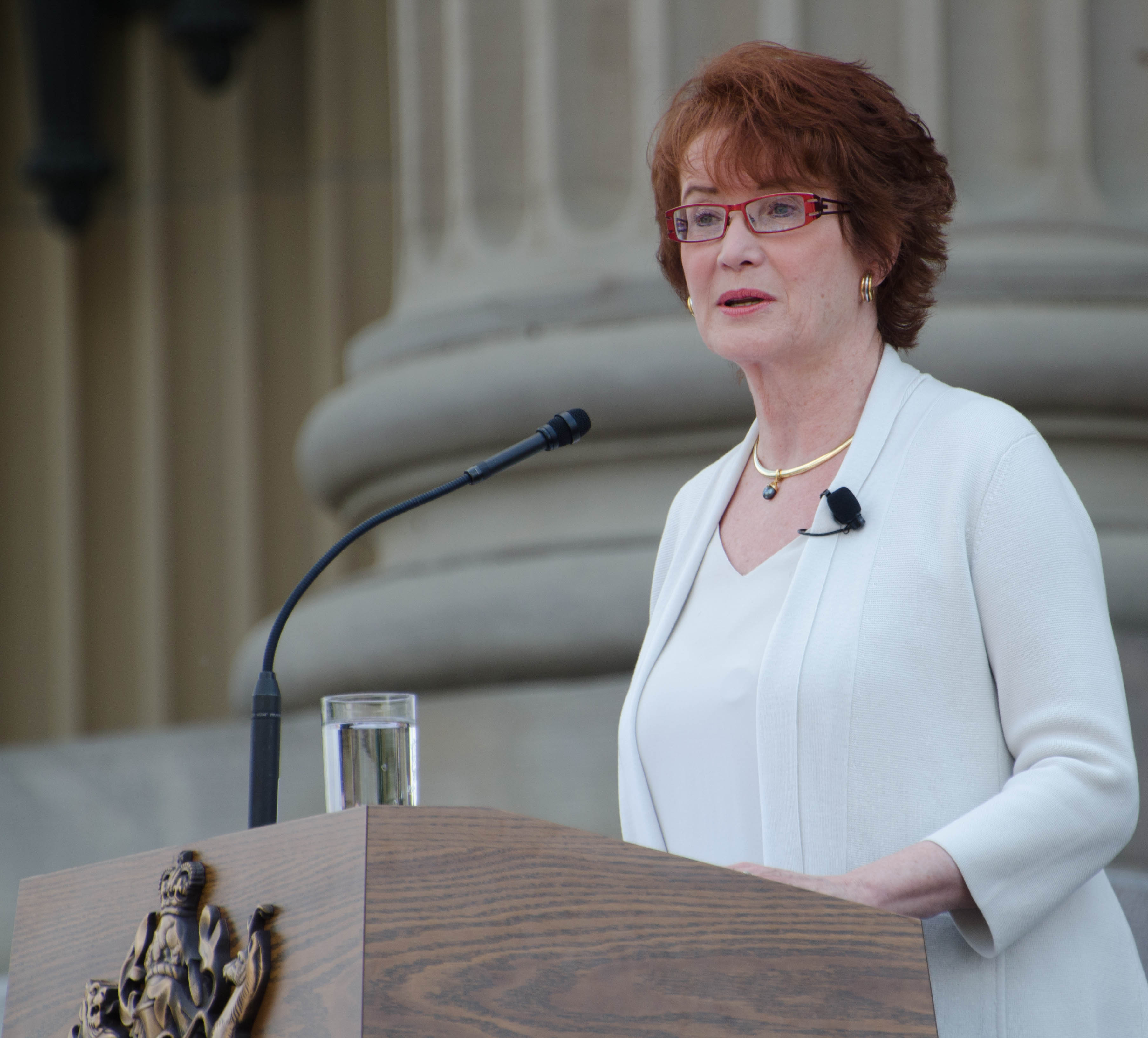 Catherine Fraser at the 2015 Alberta Premier/Cabinet swearing-in ceremony, by Connor Mah.